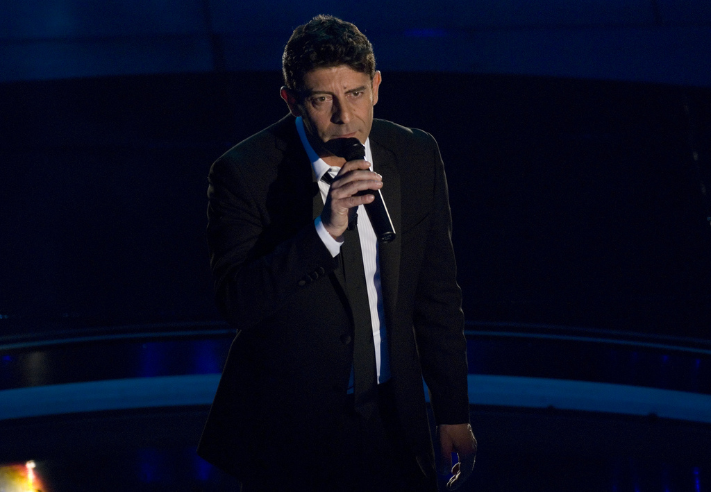 Luca Laurenti at Sanremo Music Festival